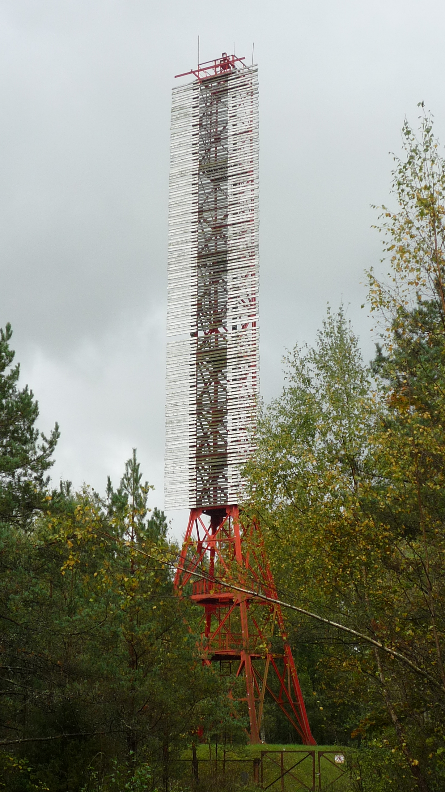 Raugi rear lightbeacon. The building is 40 meters high. Vahtraste village, Muhu parish, Saare county, Estonia.